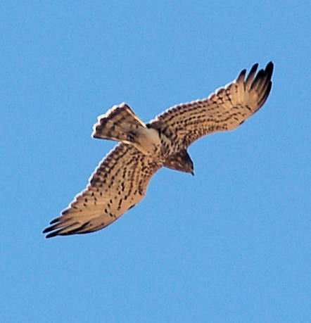 Short Toed Snake Eagle Circaetus gallicus